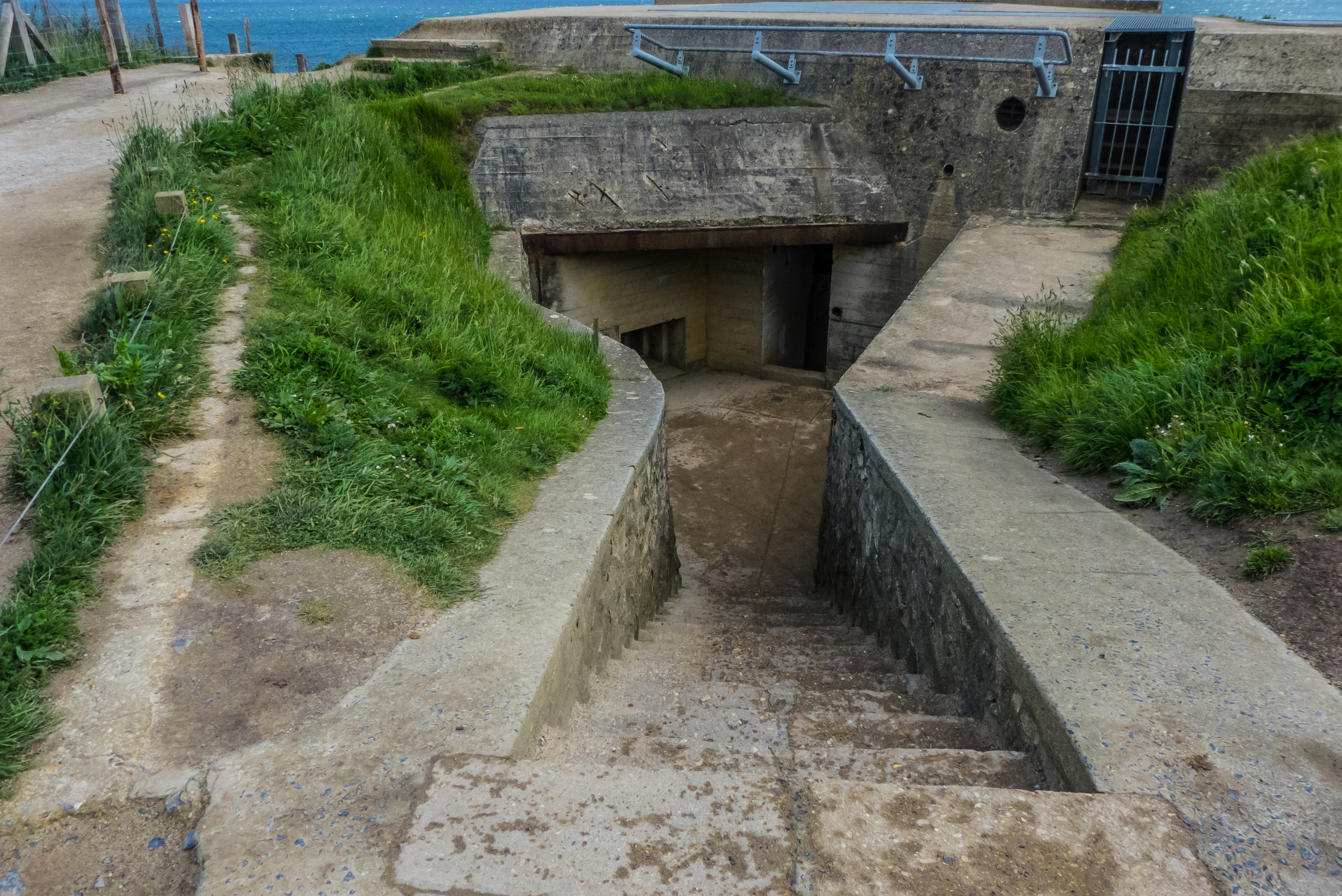 A group of French Legionnaires entered the Pointe at the same time we did, giving the place a special vibe. For the first time in 9 years we were able to come close to the monument and enter the observation post which had been in constant restoration the previous years.